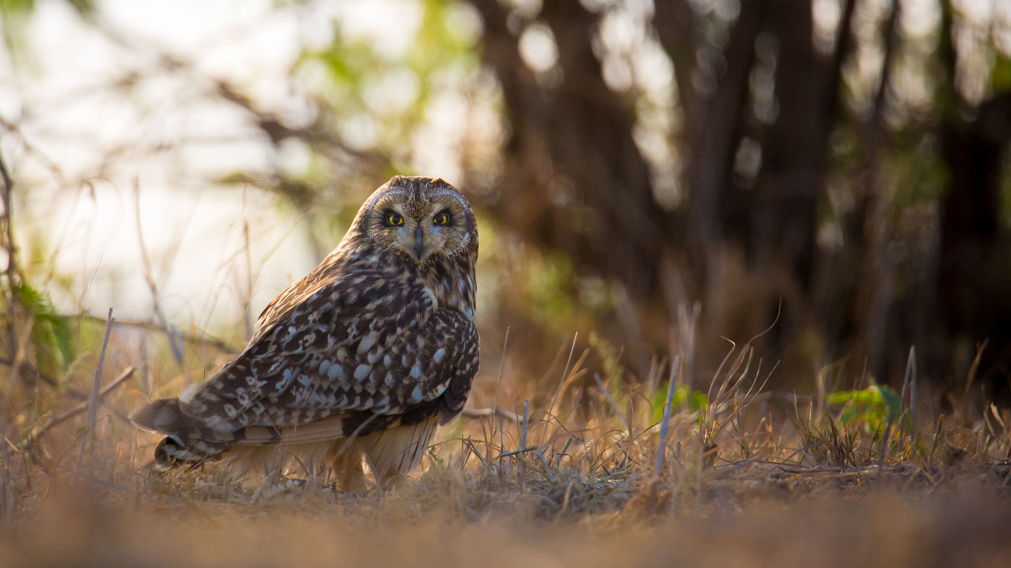 Short Eared Owl in its habitat. Notice how it chooses short shady trees to roost under, in a grassland/ desert habitat.